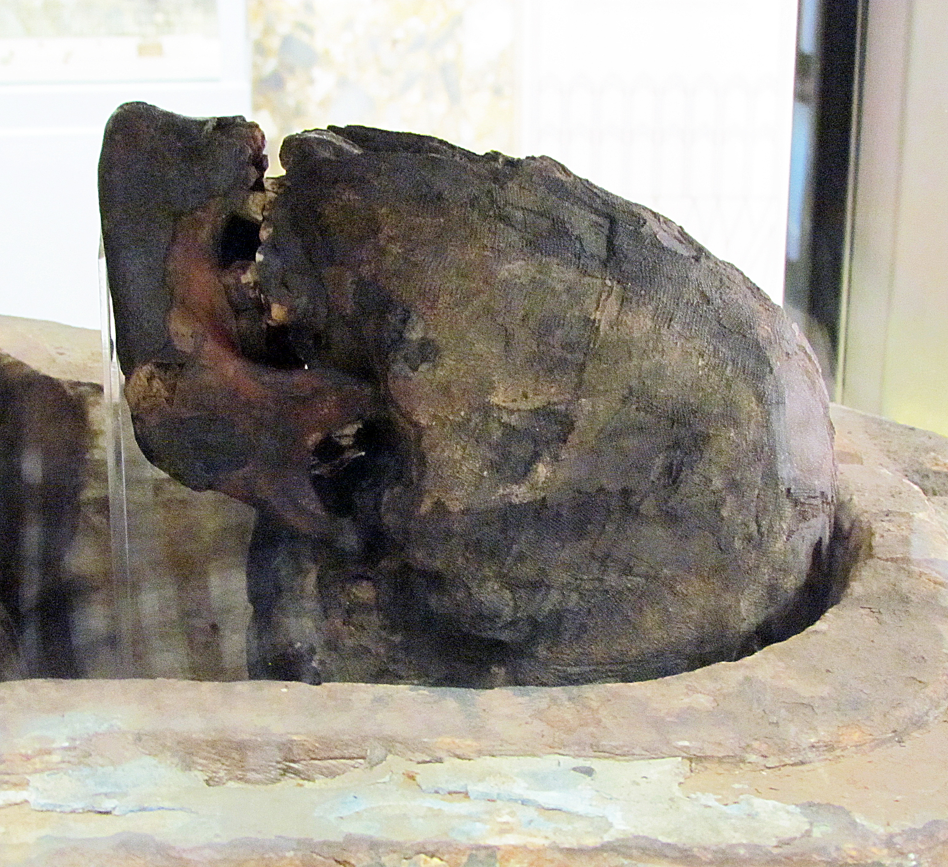 The Nefer-Renepet's mummy, National Museum of Serbia